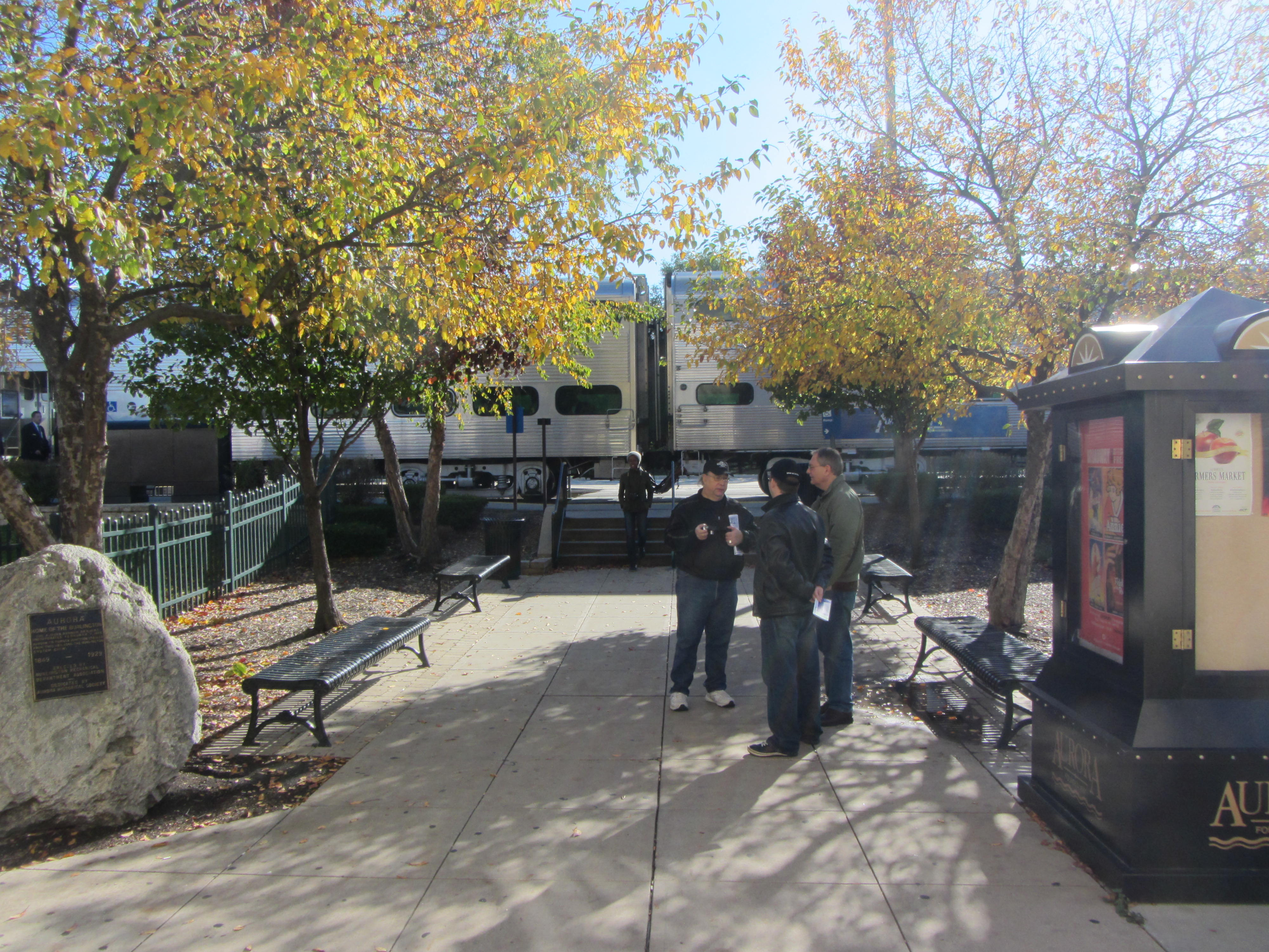 20121020 06 @ Aurora Transportation Center